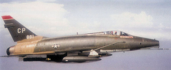 A U.S. Air Force North American F-100D Super Sabre (s/n 55-2881) of the 531st Tactical Fighter Squadron, 3rd Tactical Fighter Wing, from Bien Hoa Air Base, South Vietnam, in the late 1960s. This aircraft was retired to the MASDC on 18 April 1979 as FE0510.